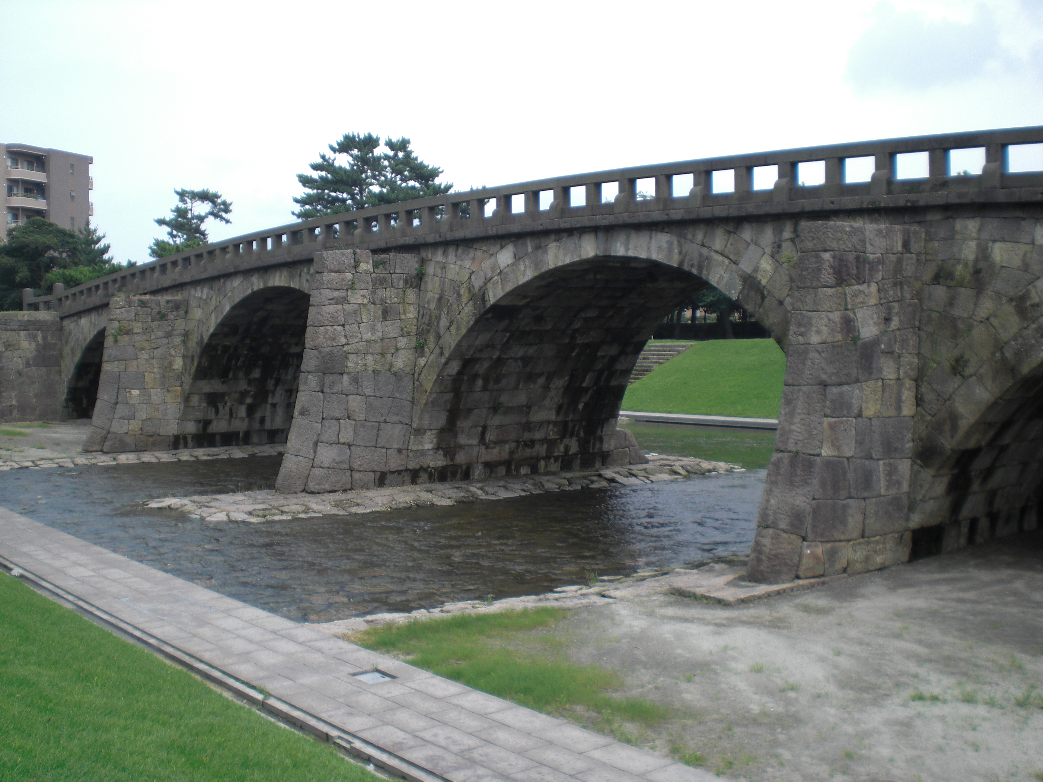 Ishibashi Kinen Koen Park